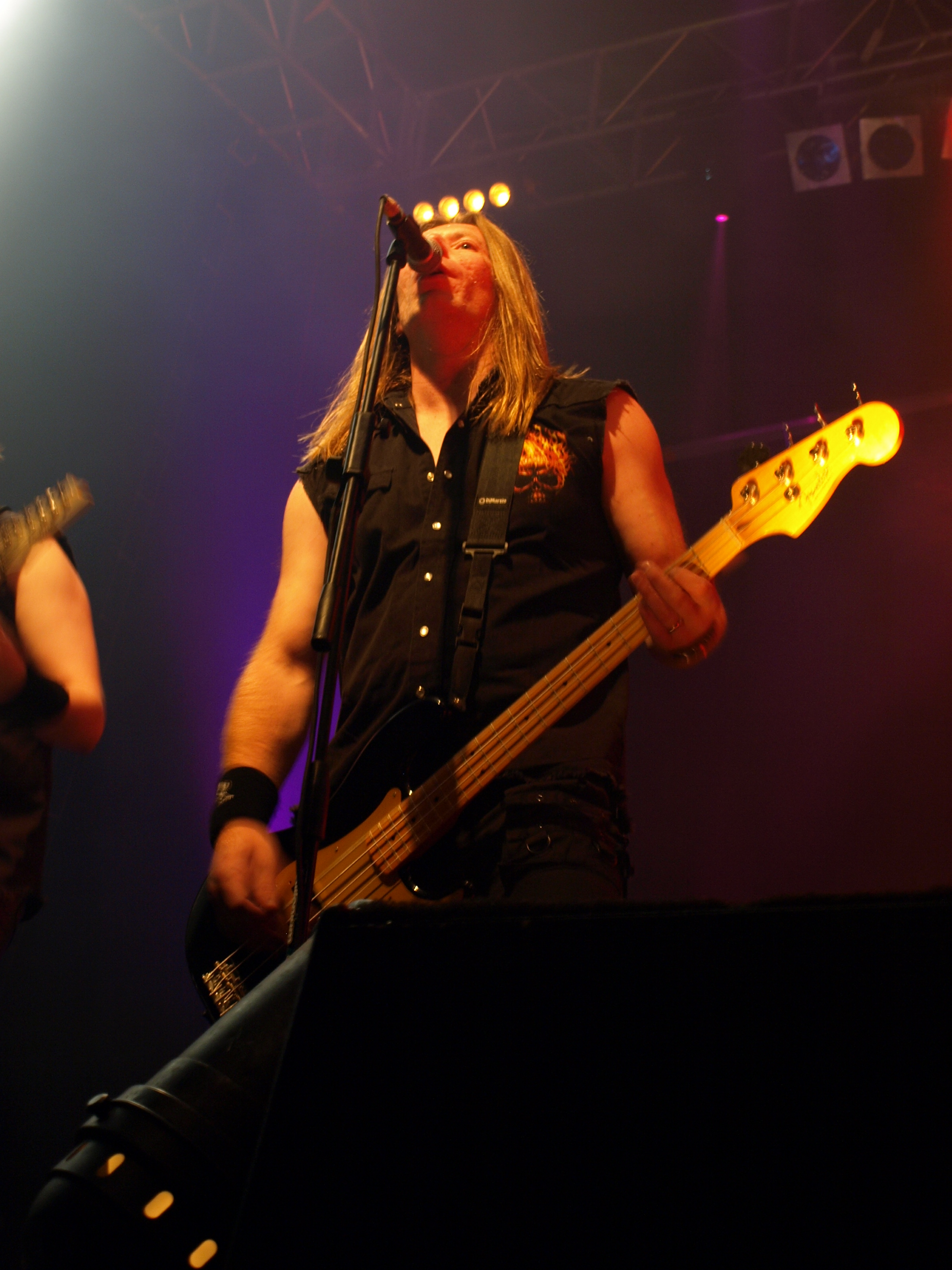 British heavy metal band Blitzkrieg live at Jalometalli 2008 in Oulu.